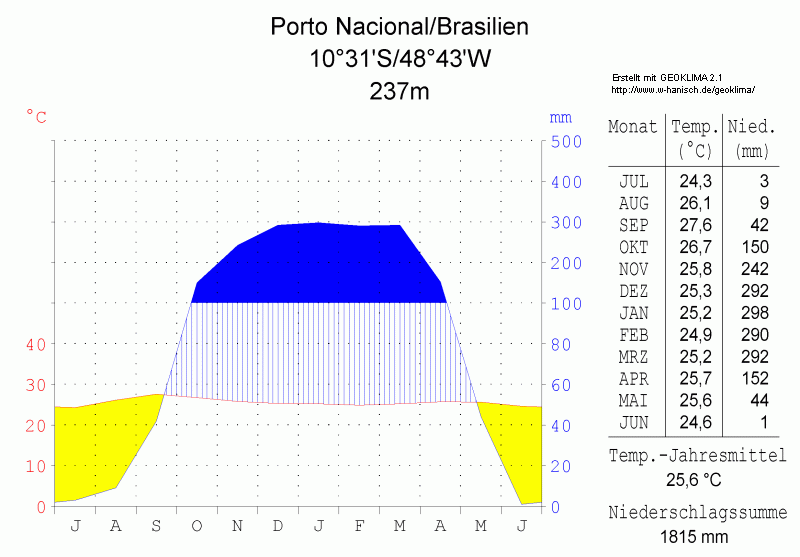 climate chart in the format by Walther and Lieth, metric, °Celsisus and millimeters, made with Geoklima 2.1